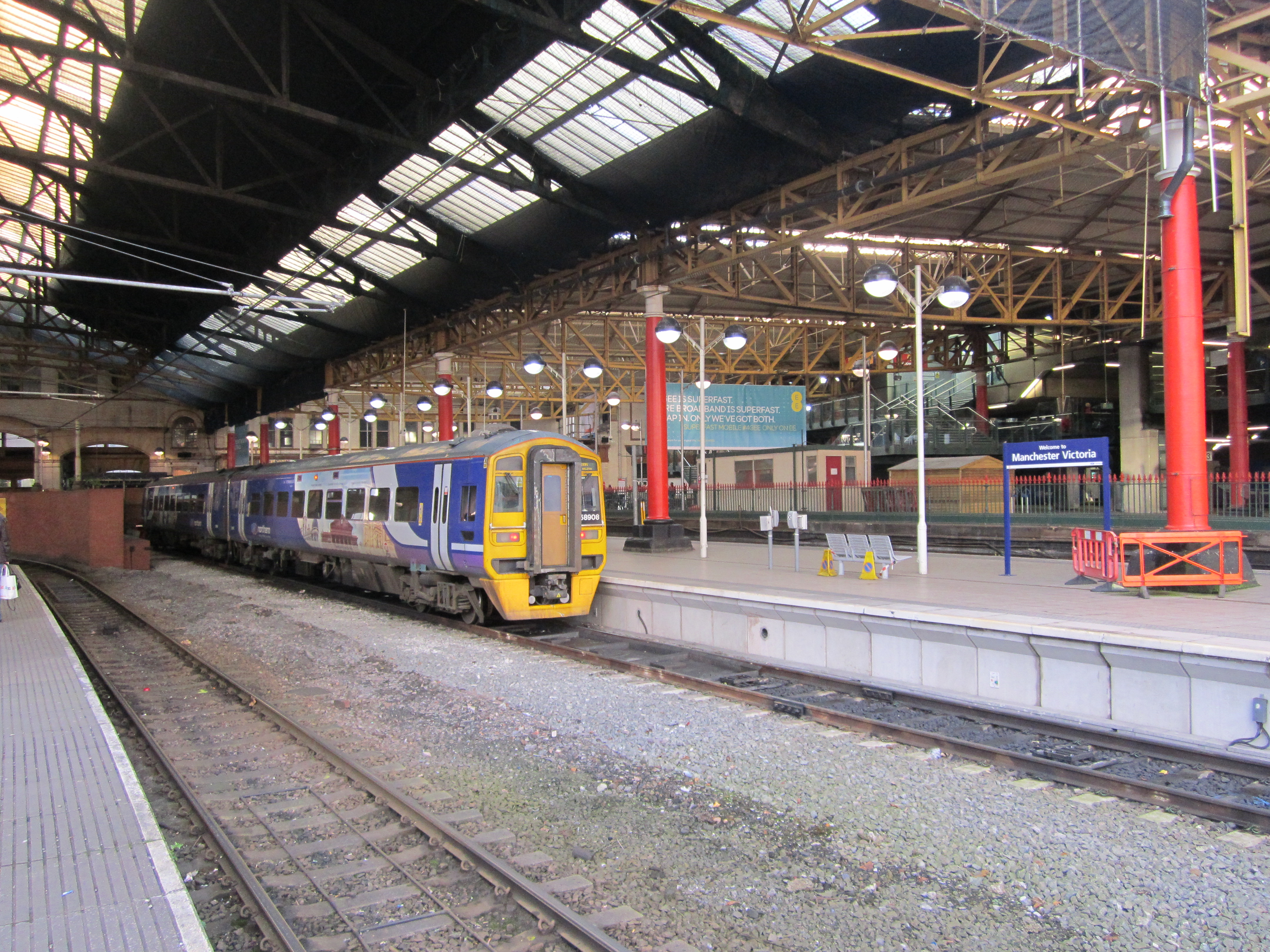 Photo taken at Manchester Victoria station, England.